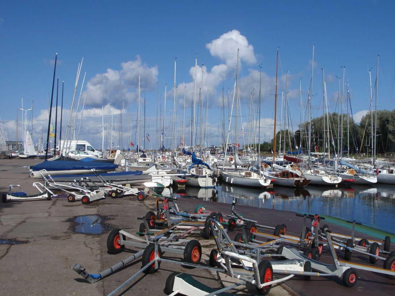 Kalev yacht club harbour in Tallinn